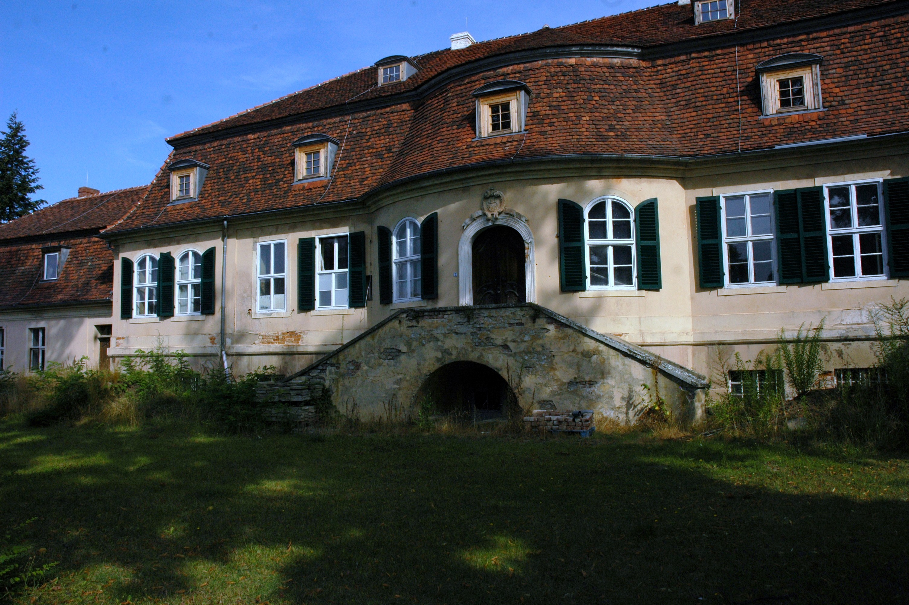 House where the families Hjort and Seip were interred during WW 2